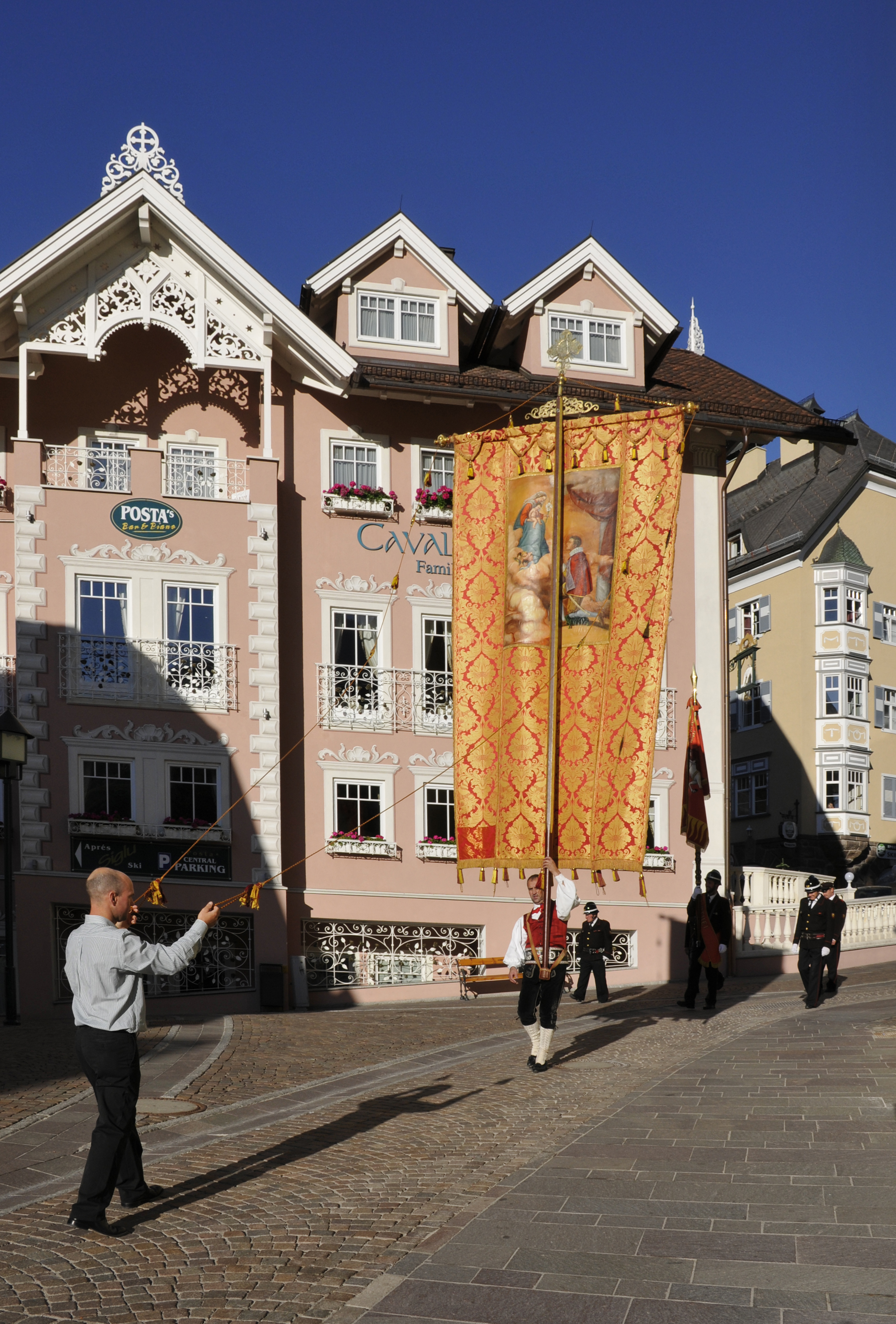 Gonfalone at the procession of Our Lady of the Rosary in Urtijei Gröden